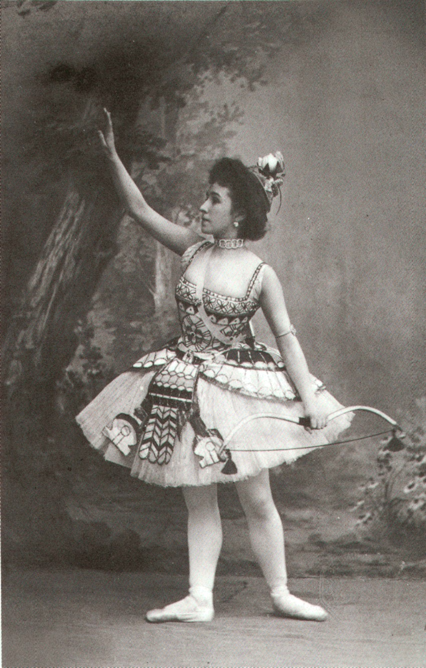 Photographic postcard of Mathilde Felixovna Kschessinskaya (1872-1971), Soloist to His Imperial Majesty and Prima ballerina of the St. Petersburg Imperial Theatres. She is costumed as the Princess Aspicia in the Grand pas des chasseresses from act I of the choreographer Marius Petipa (1811-1910) and composer Cesare Pugni's (1802-1870) ballet The Pharaoh's Daughter.